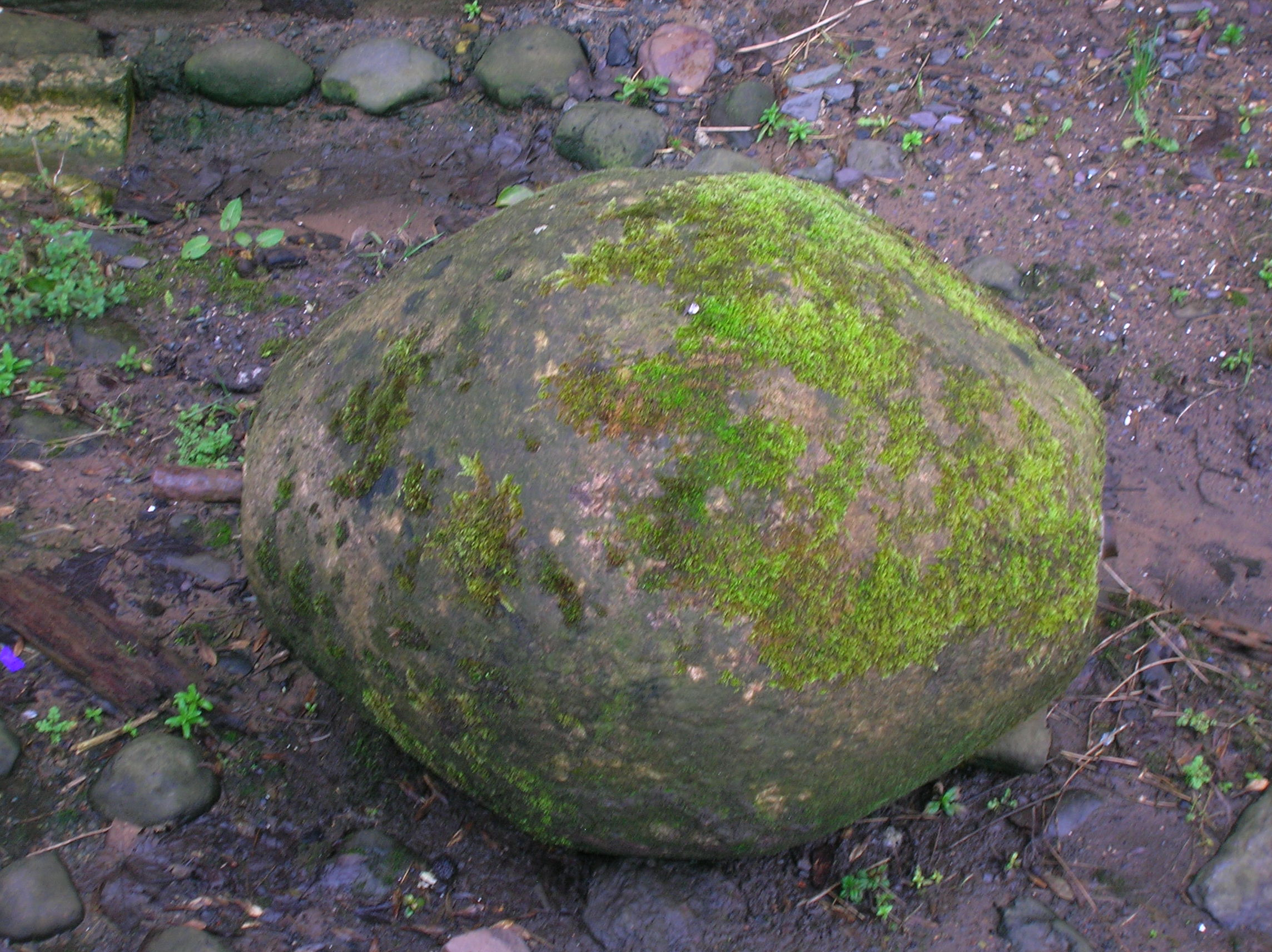 A stone used for crushing Whin to make it suitable for feeding to cattle. Dalgarven Mill, Kilwinning, Ayrshire.